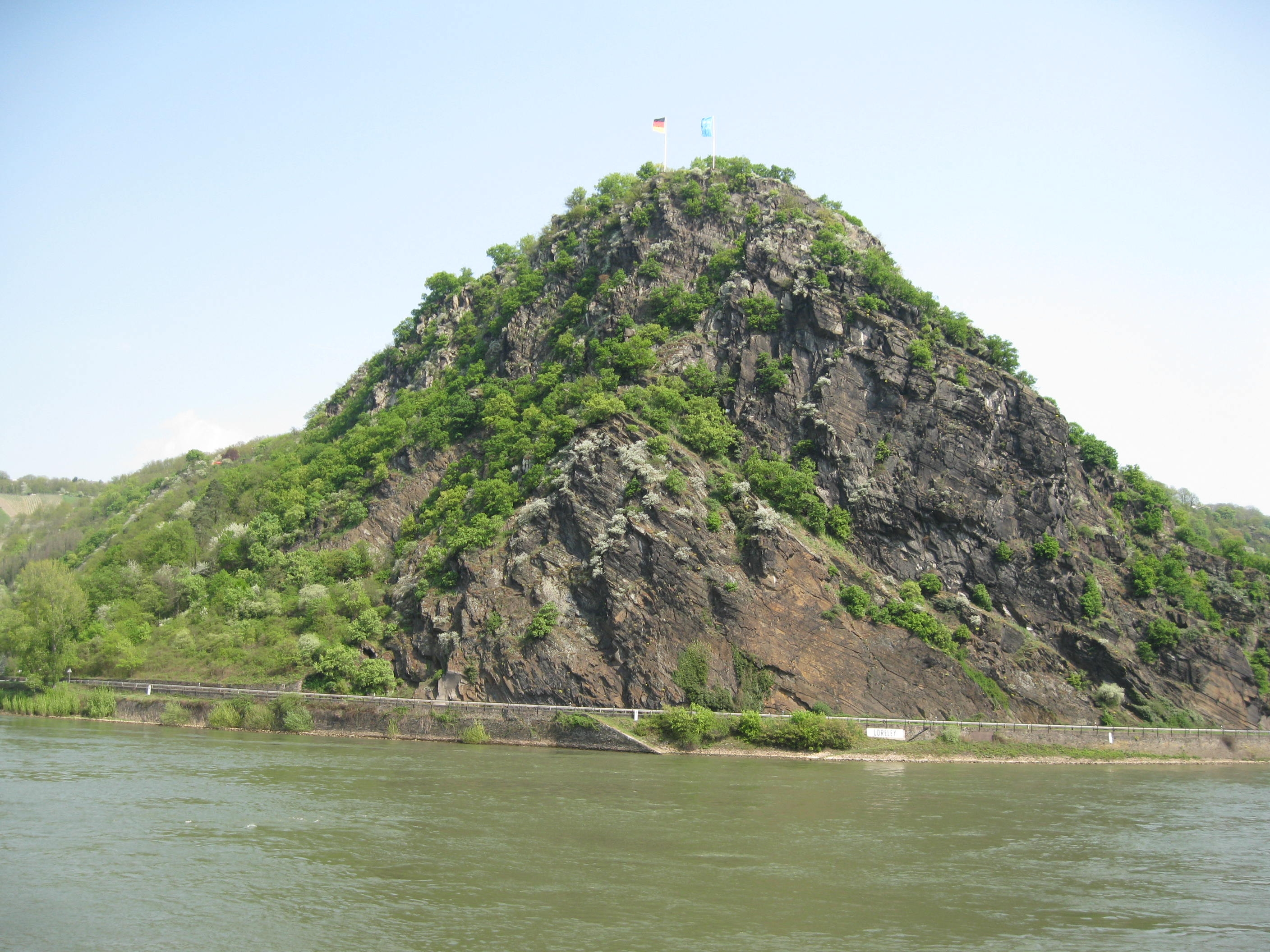 Lorely, frontal view